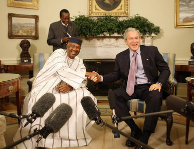 President George W. Bush and Mali President Amadou Touré meet in the Oval Office at the White House.